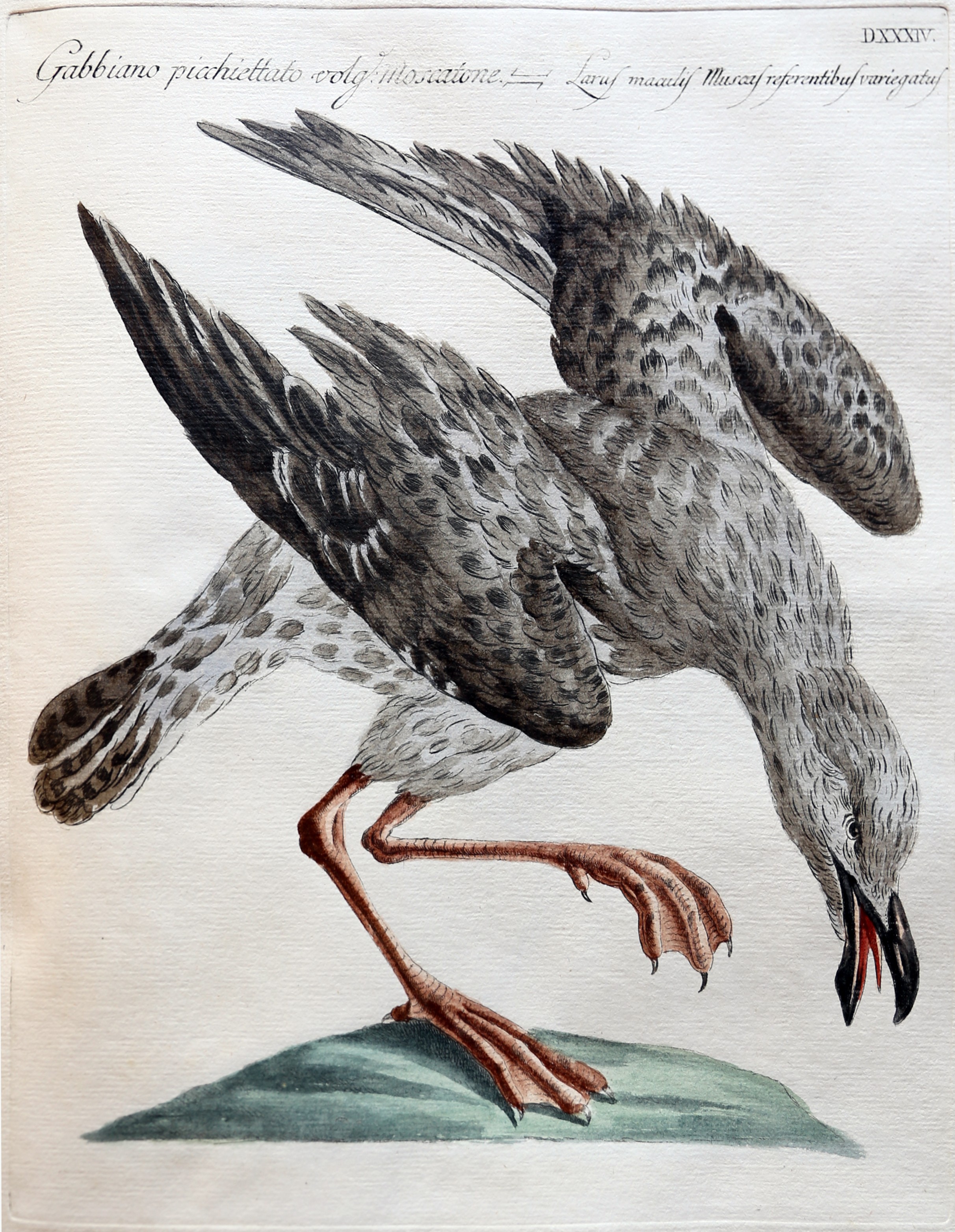 Ornithologia methodice digesta (Crusca)